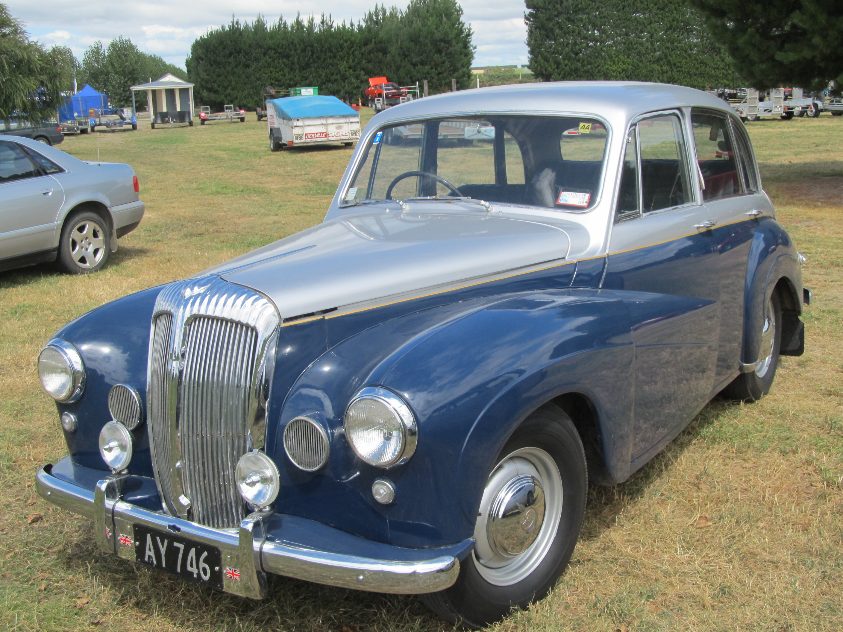 This, to me, is the perfect Daimler - elegant and unassuming, yet has a decent engine for a hit of speed when needed. I don't think these sold in any great numbers, but Daimler was never a mass manufacturer.